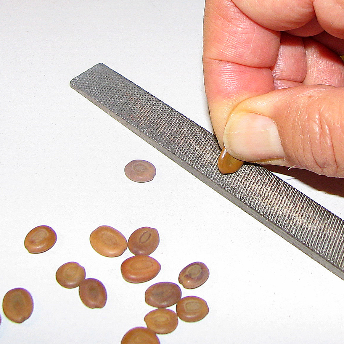 Mechanical scarification of Acacia seeds